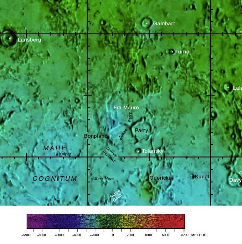 Part of the USGS near side lunar map